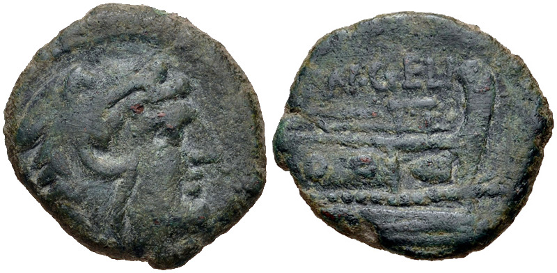 Cn. Gellius. 138 BC. Æ Quadrans (17mm, 4.33 g, 9h). Rome mint. Head of Hercules right, wearing lion-skin headdress; [•••] (mark of value) to left / Prow of galley right; ••• (mark of value) to right, [C]N • GELI above. Crawford 232/4; Sydenham 435b; RBW 966. VF, green patina. From the RBW Collection (Numismatica Ars Classica 61, 5 October 2011), lot 962 (unsold), purchased from R. Russo, August 1995.